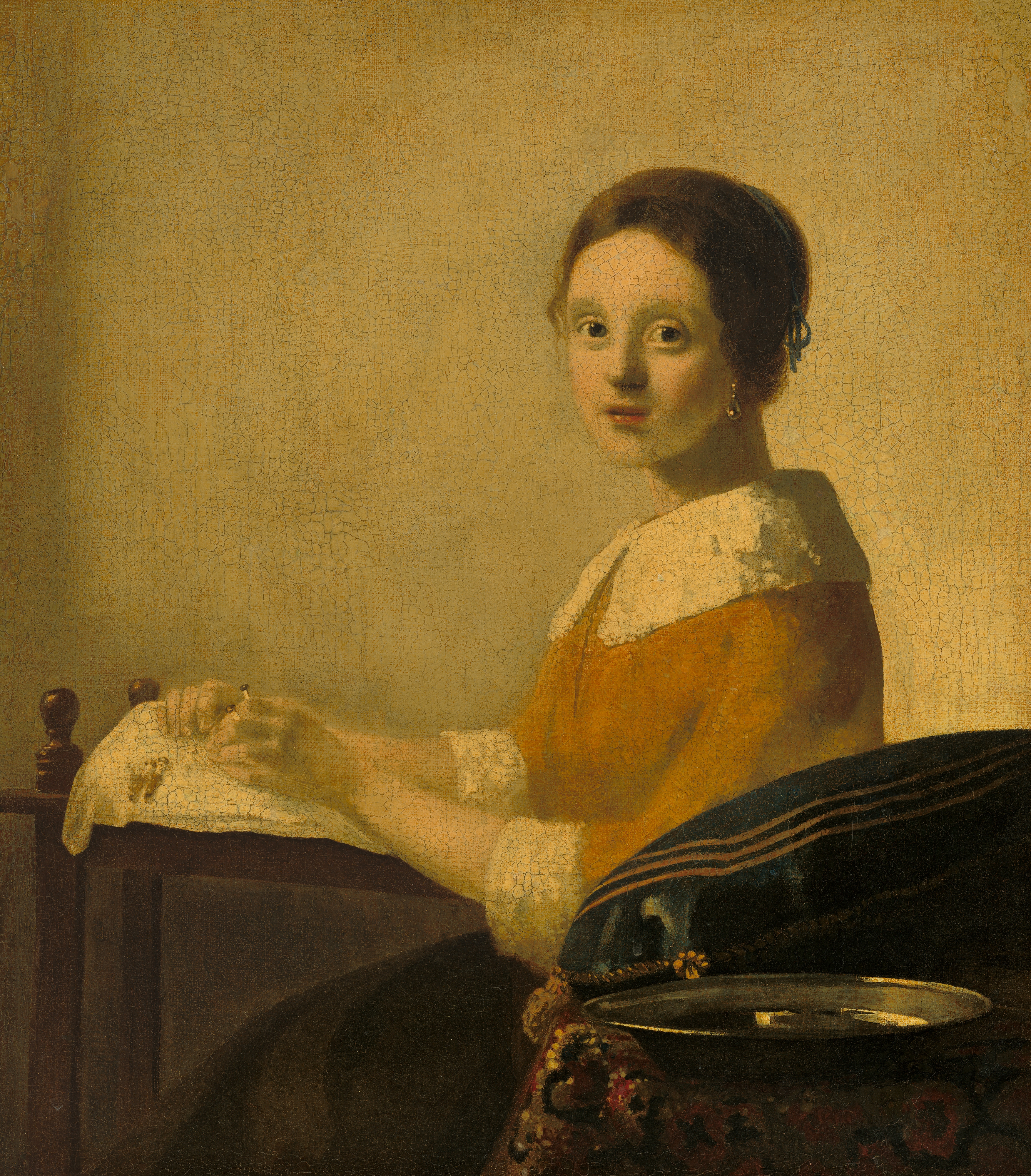 Imitator of Johannes Vermeer